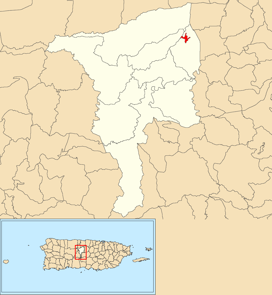 Ciales barrio-pueblo, Ciales, Puerto Rico locator map